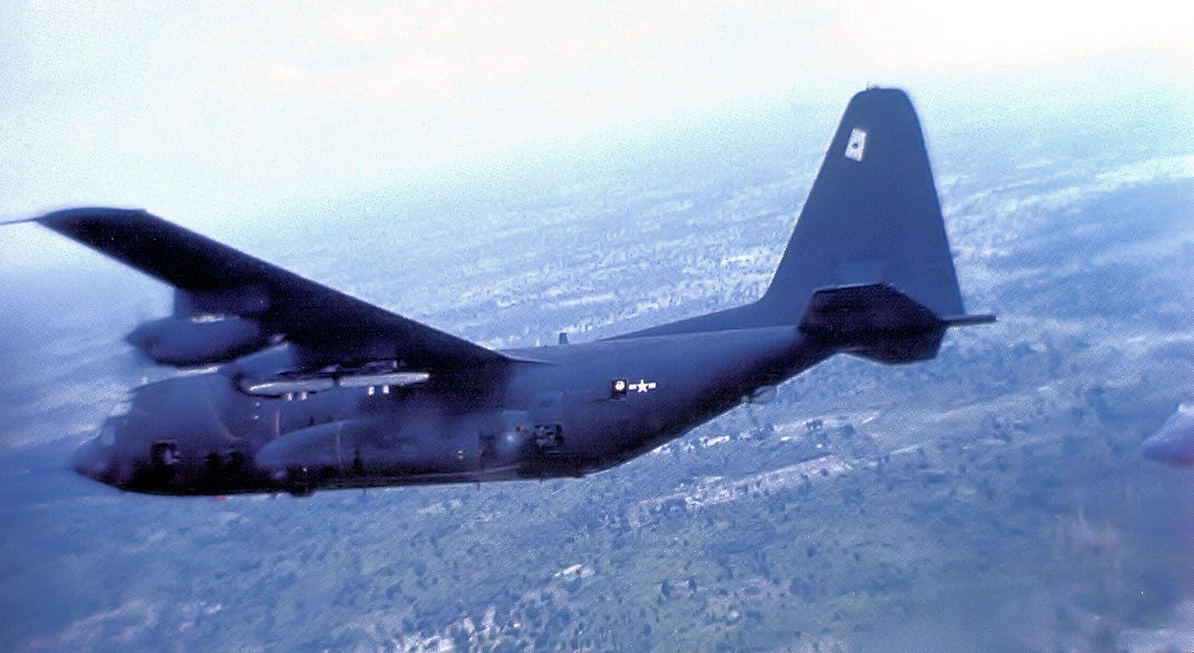 AC-130-LM Hercules Spectre Gunship 55-0029 of the 16th Special Operations Squadron flying from Korat RTAFB, Thailand, July 1974. This aircraft was retired to AMARC on 15 November 1994